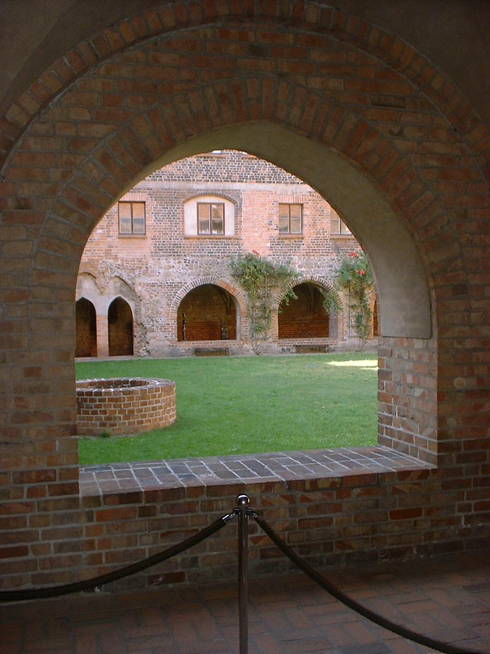 Yard of Monastery Jerichow, Saxony-Anhalt, Germany